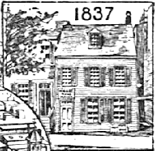 detail from illustration in "Genesis of the Knabe Piano" Lyon & Healey advertisement